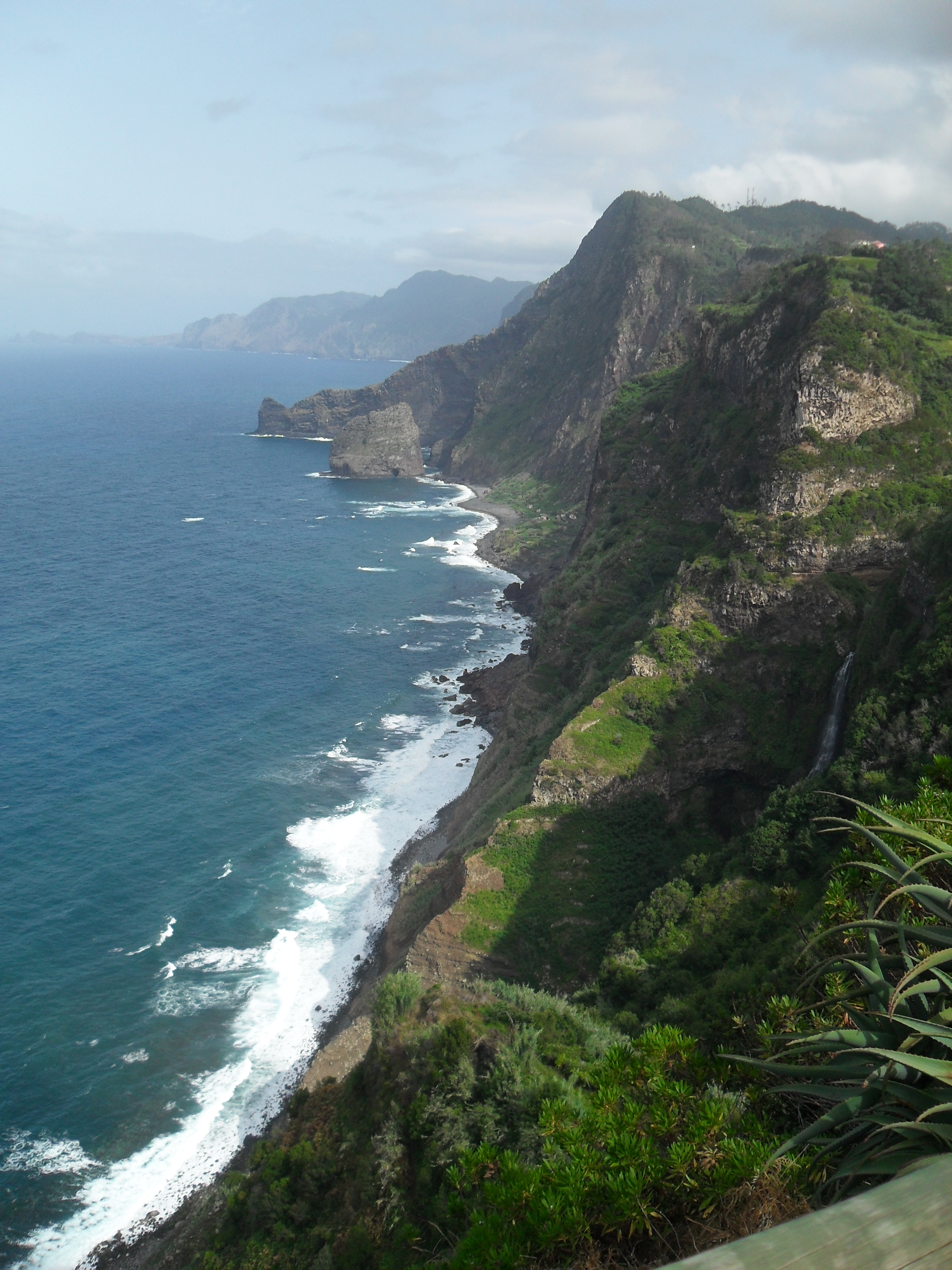 The coast and cliffs of Madeira from a vantage point 1000ft above sea level (near Sao Jorge) in July 2009.